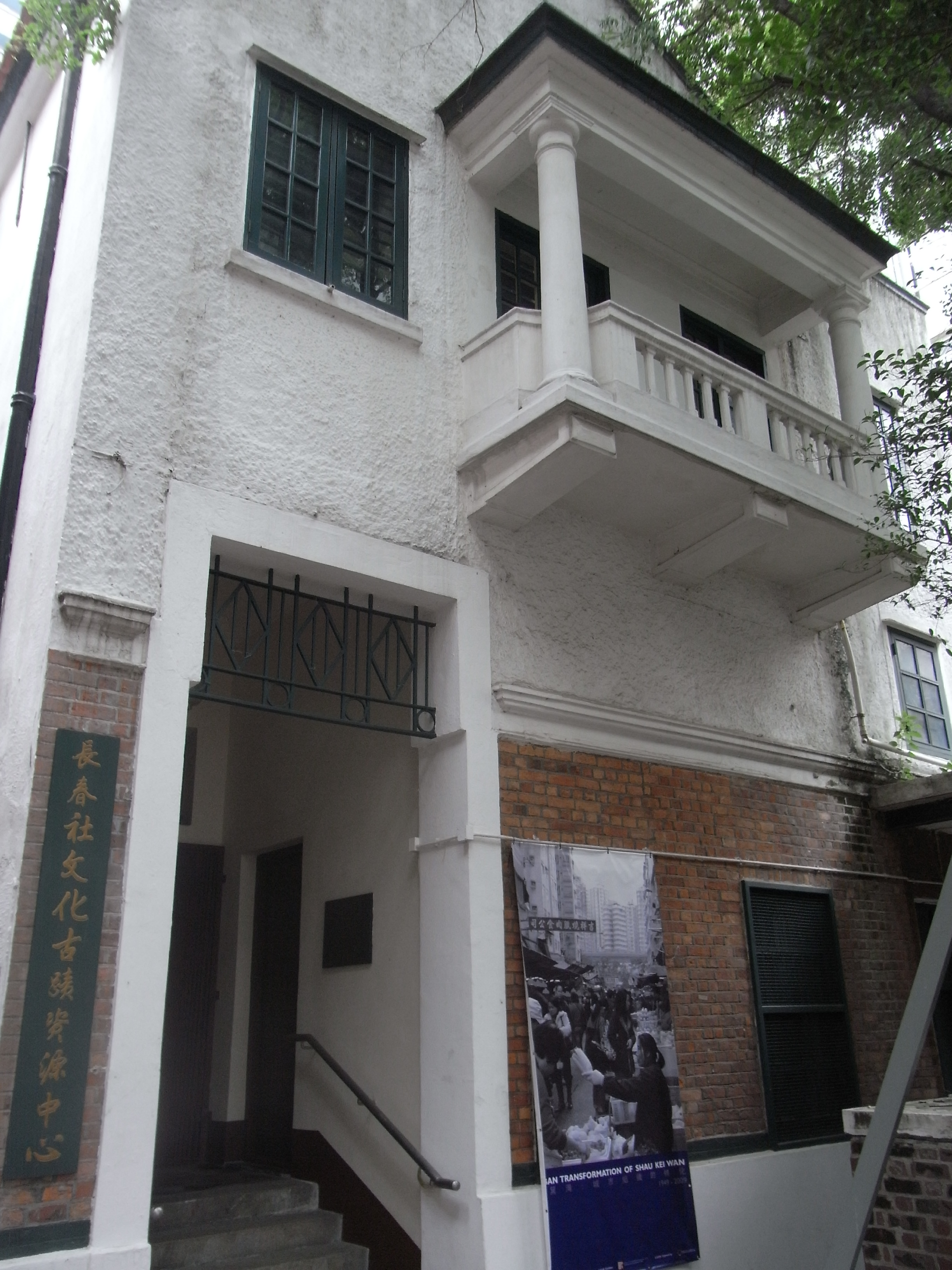 西邊街 西區社區中心